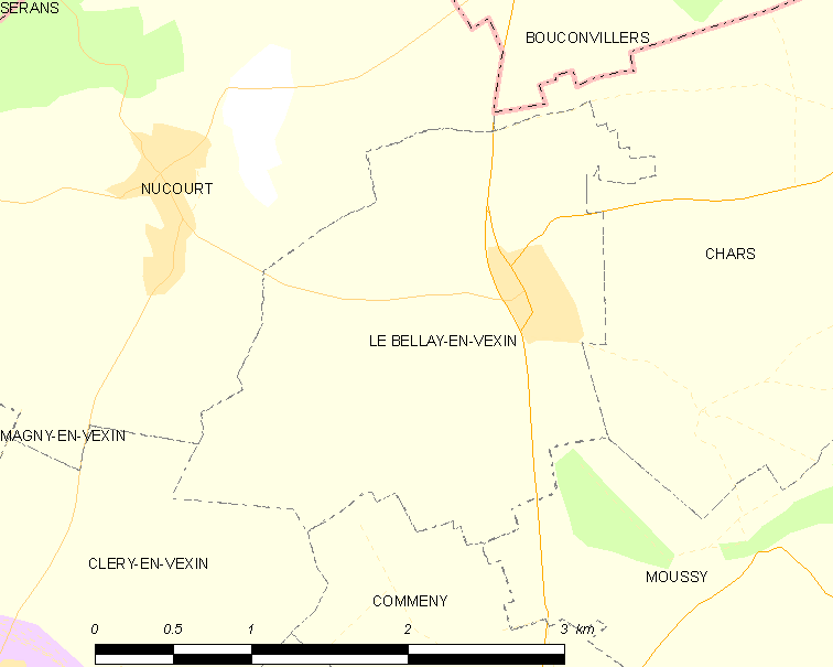 Map of French municipality Le Bellay-en-Vexin